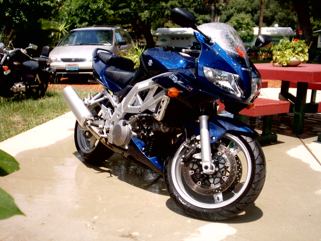 A picture that I took of my 2004 Suzuki SV1000S.